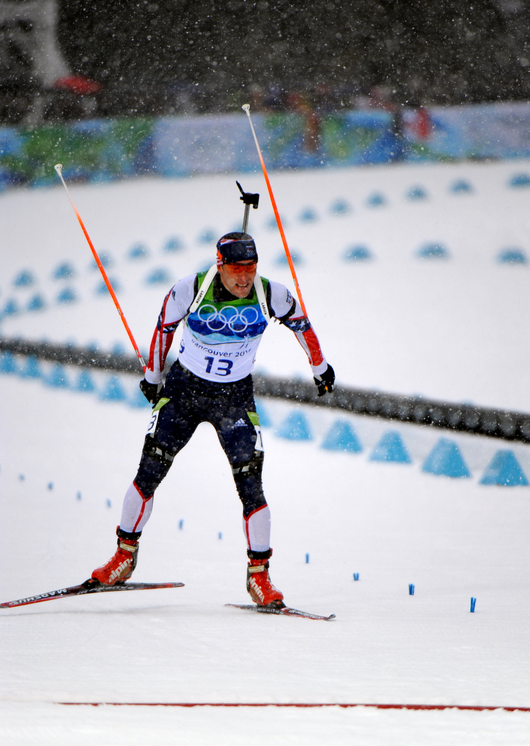 Army World Class Athlete Program biathlete Sgt. Jeremy Teela of the Utah National Guard nears the finish line for ninth place with a time of 25 minutes, 21.7 seconds in the Olympic men's 10-kilometer sprint race Feb. 14, 2010, at Whistler Olympic Park in Callaghan Valley, British Columbia, Canada. It was the best American finish ever on Olympic biathlon competition.